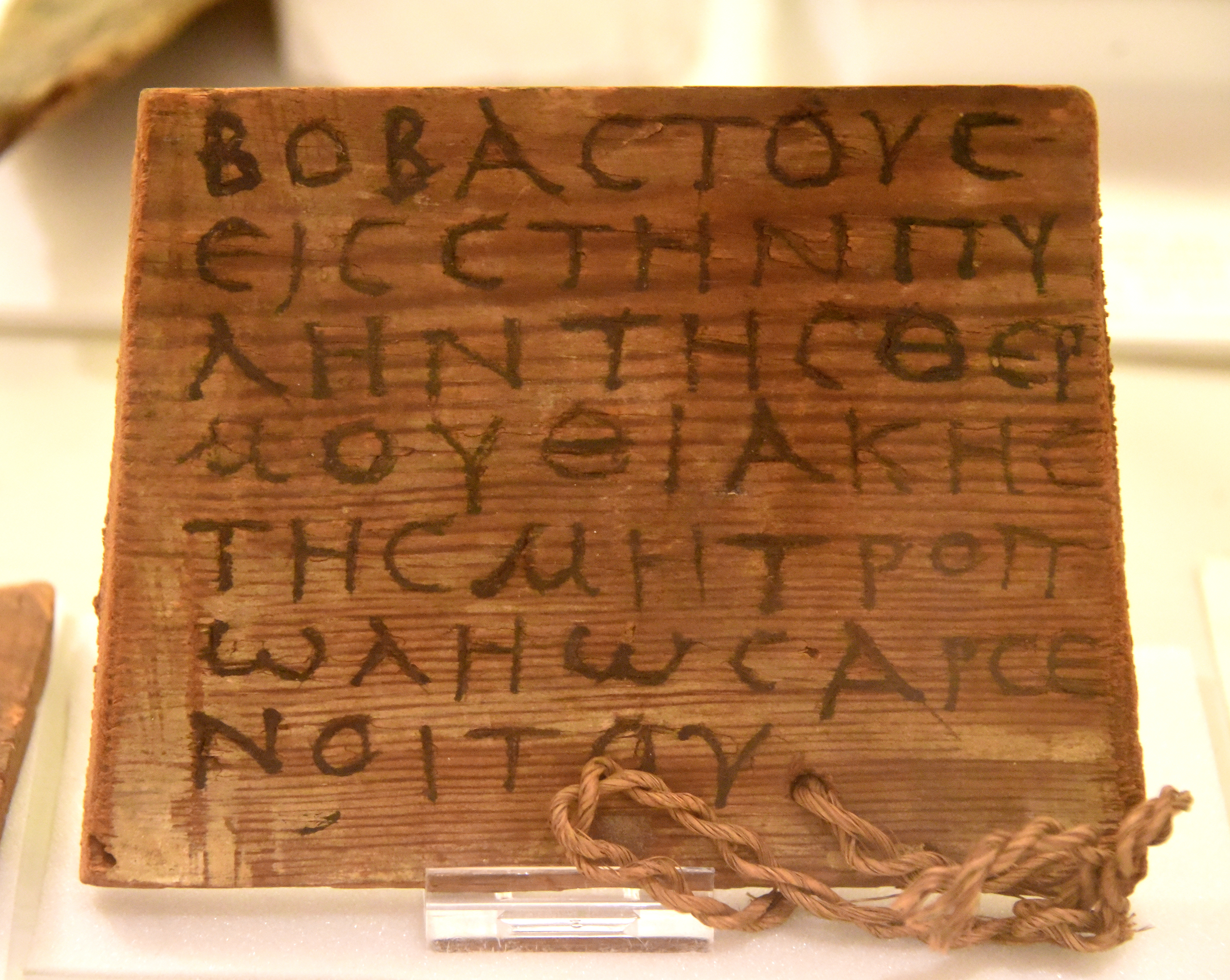 This wooden mummy label was inscribed in black ink. The original cord is still attached, in situ. The inscriptions read “Boubastos of the gate of the Thermonthiac quarter of the metropolis of Arsinoe”. Roman Period. From Hawara, Fayum, Egypt. The Petrie Museum of Egyptian Archaeology, London. With thanks to the Petrie Museum of Egyptian Archaeology, UCL.